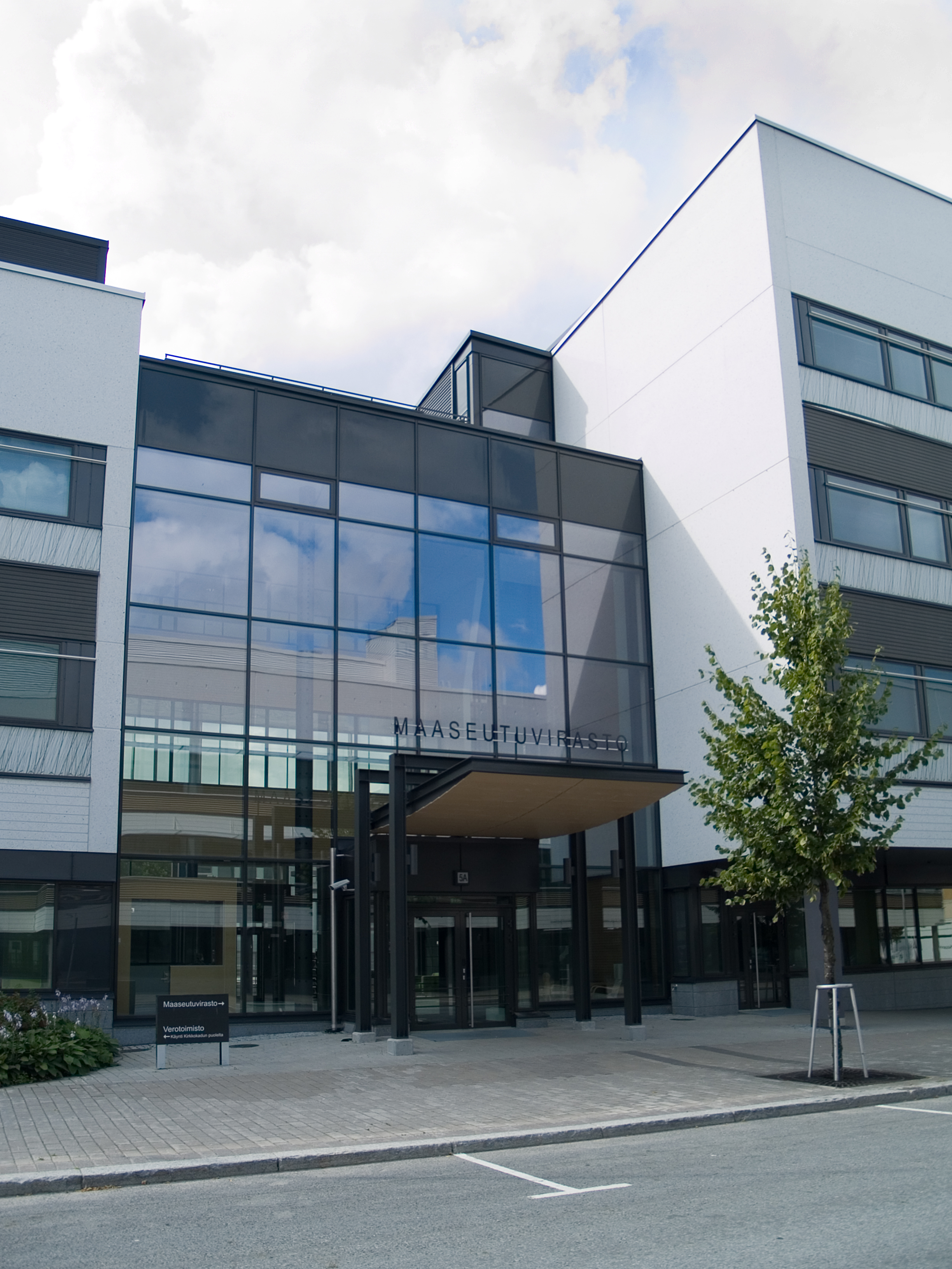 Main entrance to Agency for Rural Affairs (Maaseutuvirasto, Mavi) in Seinäjoki, Finland.